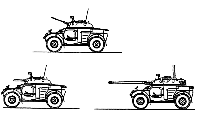 Panhard AML light armored car (Pictured: AML H-60 with 60mm mortar, AML H-20 in Irish/South African configuration with 20mm autocannon, and AML H-90 with 90mm main gun).